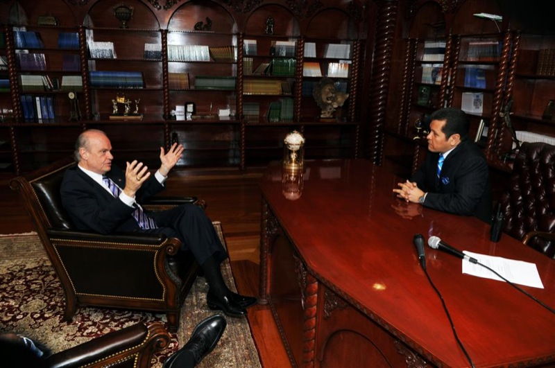 Fred has a private meeting with Pastor Guillermo Maldonado